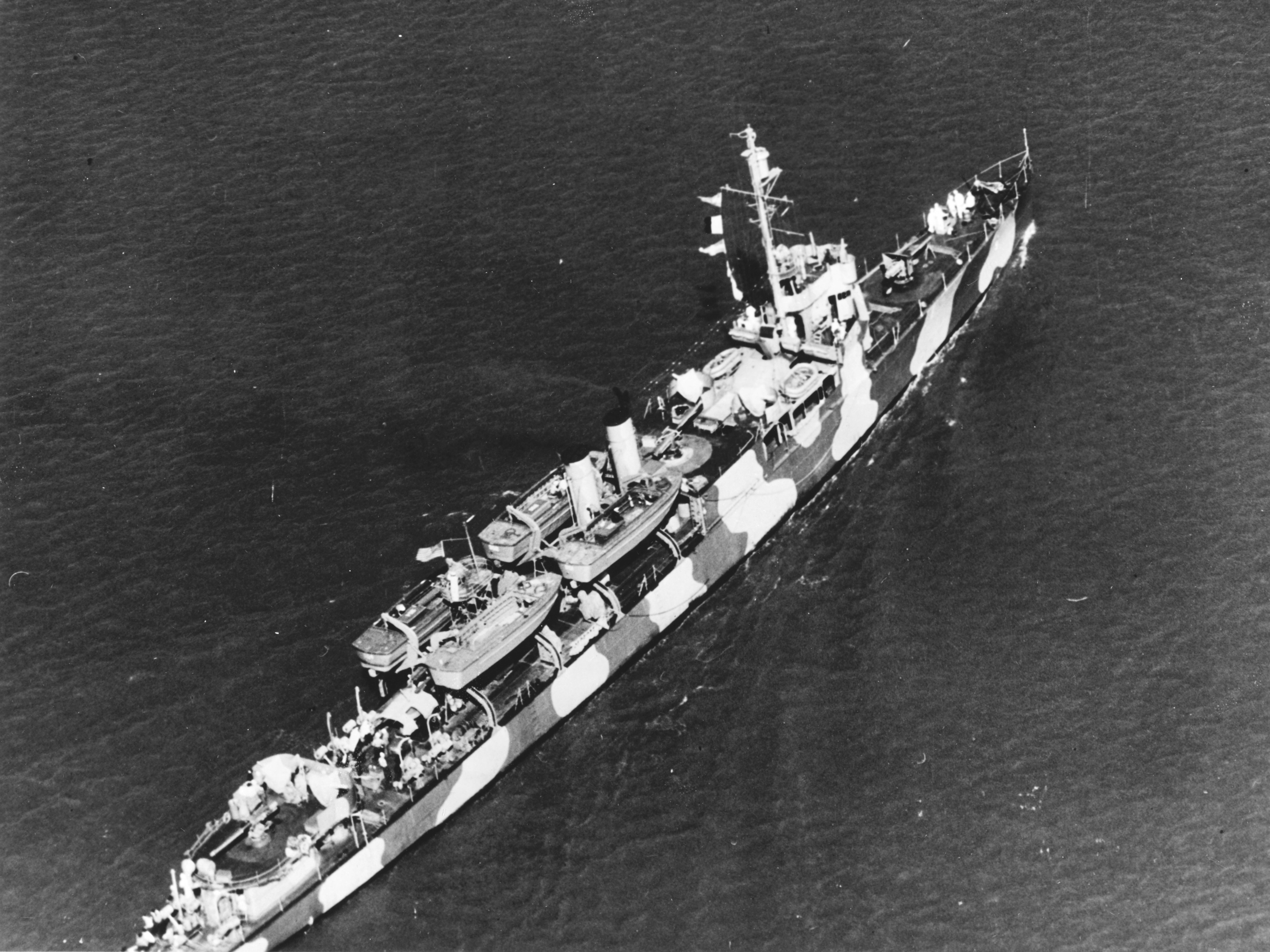 The U.S. Navy high-speed transport USS McKean (APD-5) underway in early 1942, while painted in Camouflage Measure 12 (Modified).